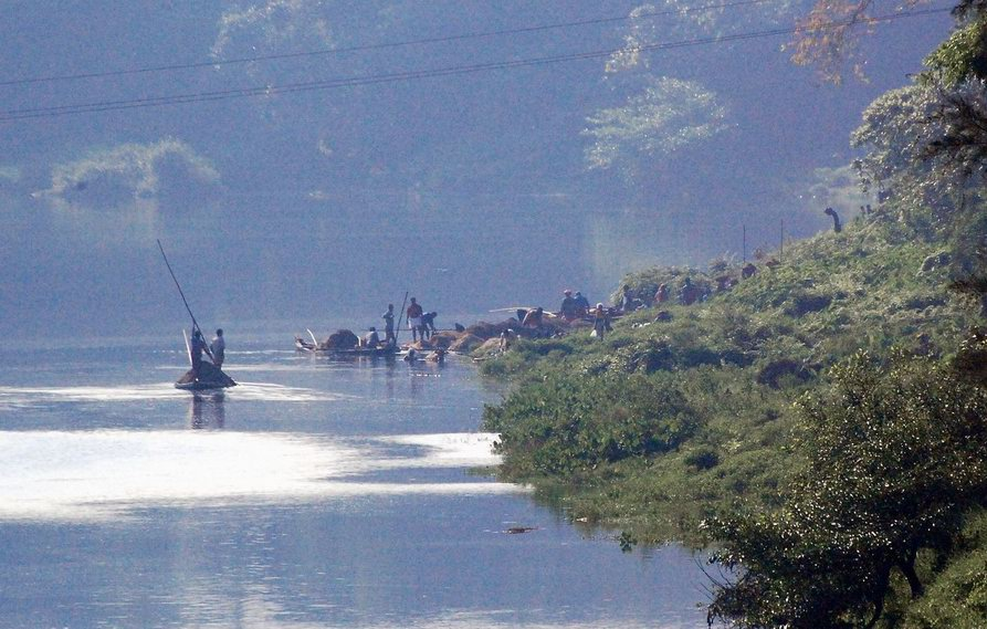 THE indiscriminate sand mining from the rivers in Kerala has become a major threat to environment as most of them have been transformed into "skeleton streams" pushing down the underground water tables in the basins of these rivers. The current rate of daily mining is so high that the damage is irreparable. Despite restrictions on sand mining, truckloads of sand are removed and smuggled out in connivance with law-enforcing authorities, he alleged. The worst-affected rivers are Achankovil, Pamba, Manimala, Meenachel, Muvattupuzha, Periyar and Chalakudy. A scene from chalakudy.